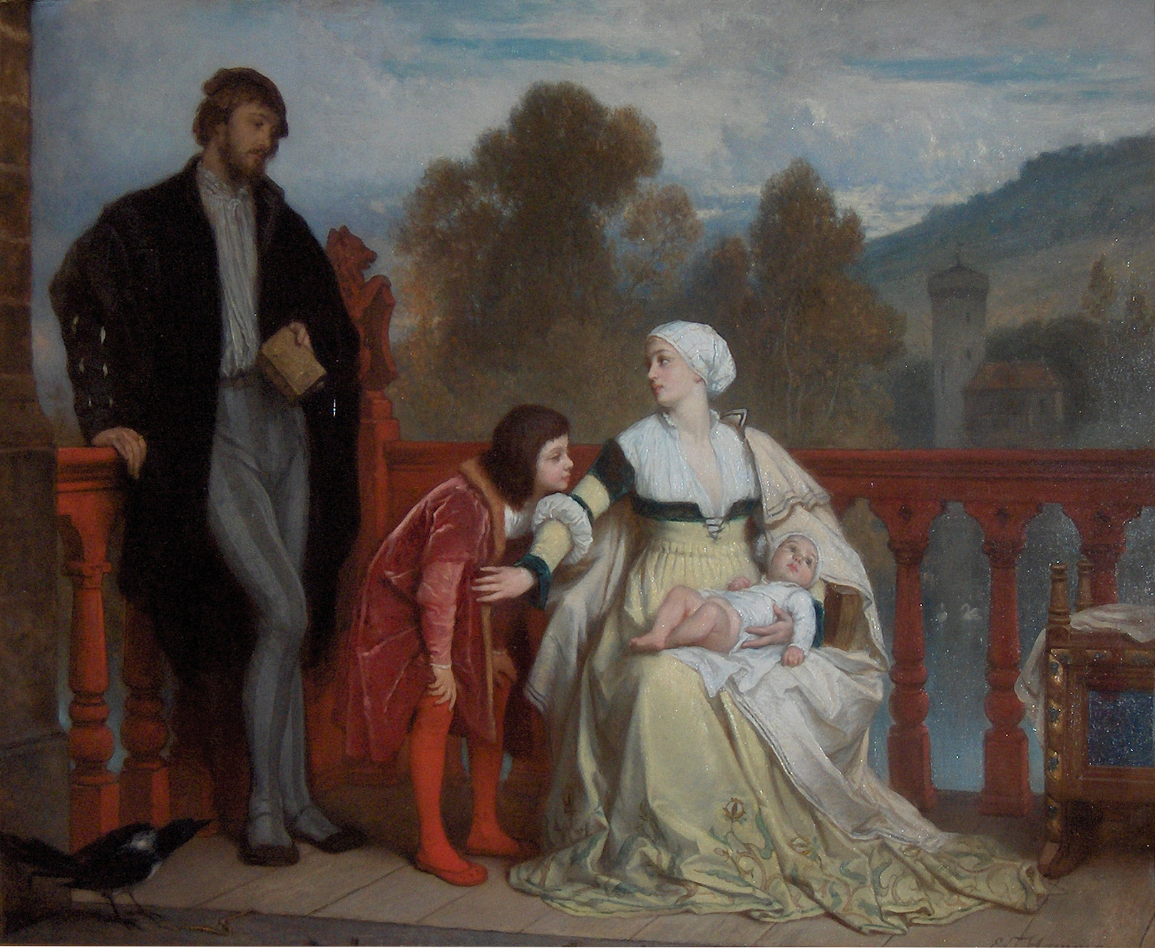 The newborn (De nieuwgeborene) (the painter and his family in historical costumes)